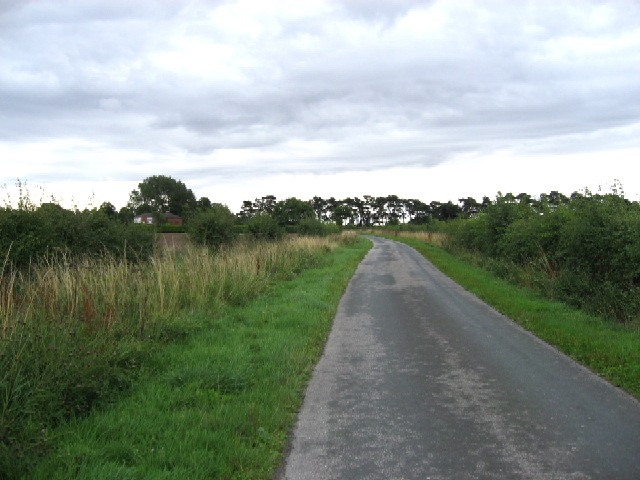 Approaching Willitoft, East Riding of Yorkshire.The Howden Twenty, a long distance footpath, runs through Willitoft.